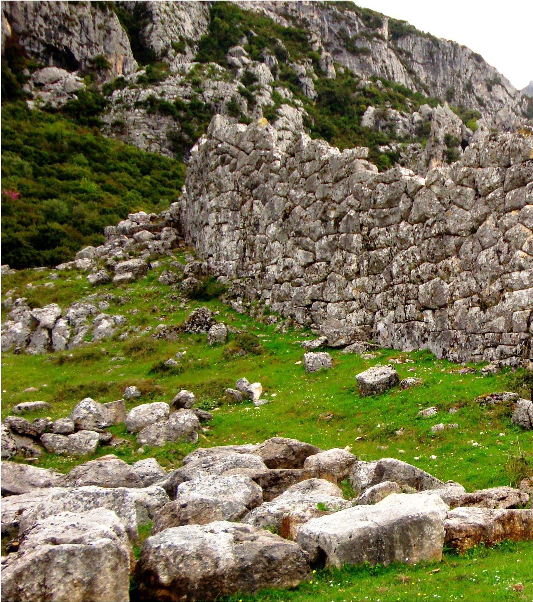 Elea, Thesprotia, Greece, south walls